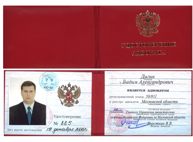 Identity cards - Document of a lawyer in Russia, the single sample. Issued by the Ministry of justice of Russia